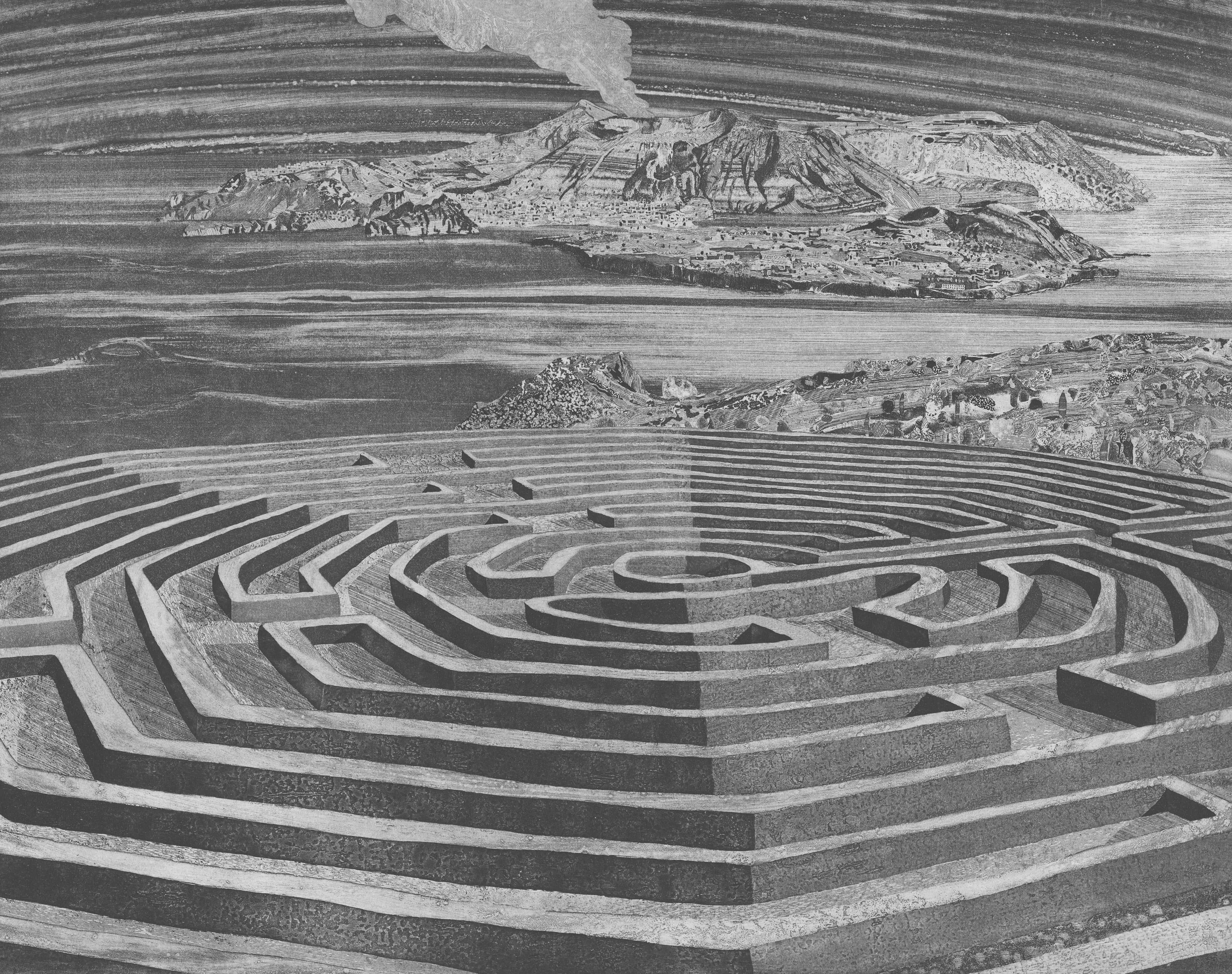 Labyrinth 8, etching, aquatint, soft-ground etching, Engraved and designed by Toni Pecoraro 1997.